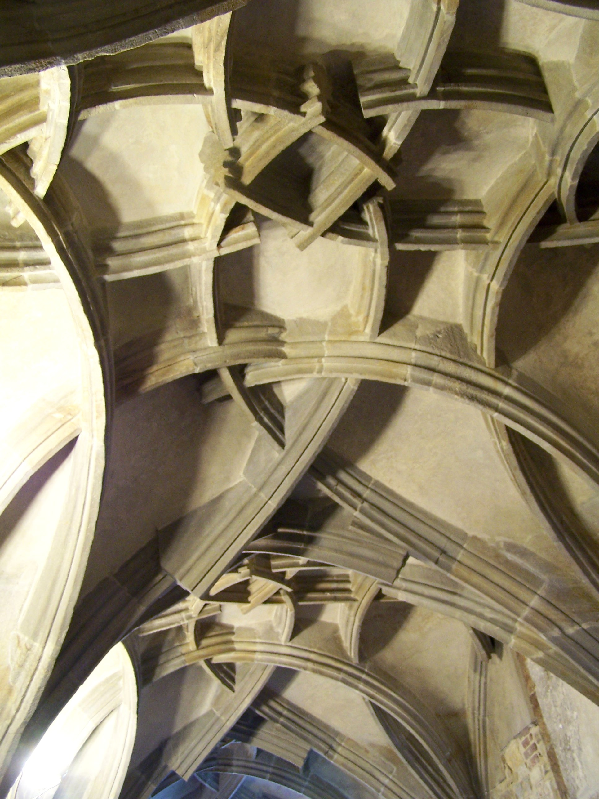 Vault of Equestrian Stair in Prague Castle.